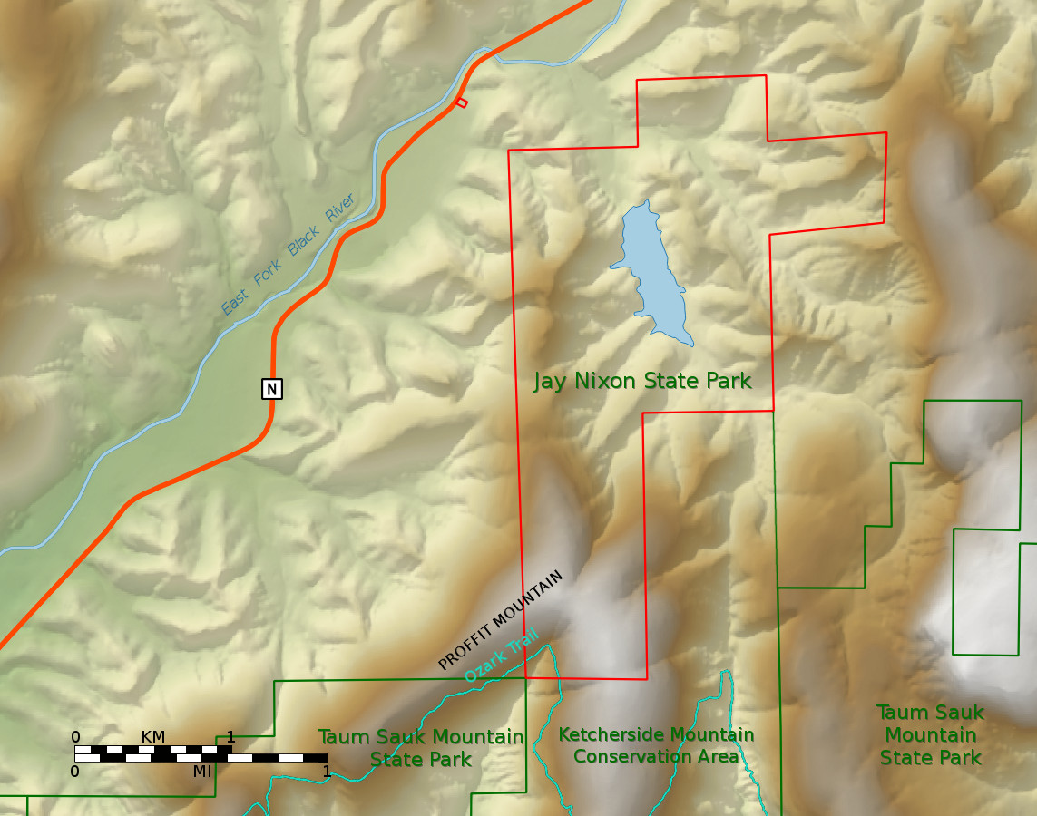 A shaded relief image showing Jay Nixon State Park in Missouri. Park boundaries are from a shapefile published by the Missouri Department of Natural Resources.[1] At the time the map data was published the tract of land that makes up Jay Nixon State Park was represented as being a part of adjacent Taum Sauk Mountain State Park.[2] Do not rely on this map for determining legal boundaries or for navigation; it is provided with no guarantee of suitability for any purpose.